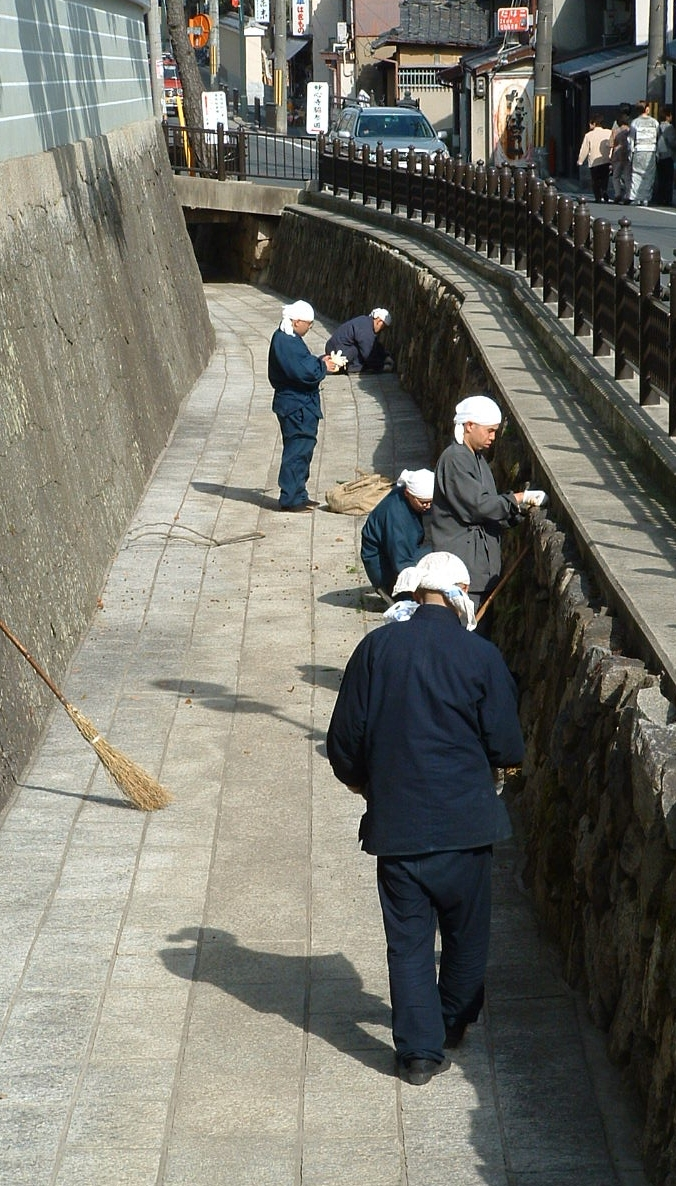 Zen monks at Myoshin-ji temple Photograph by Gakuro